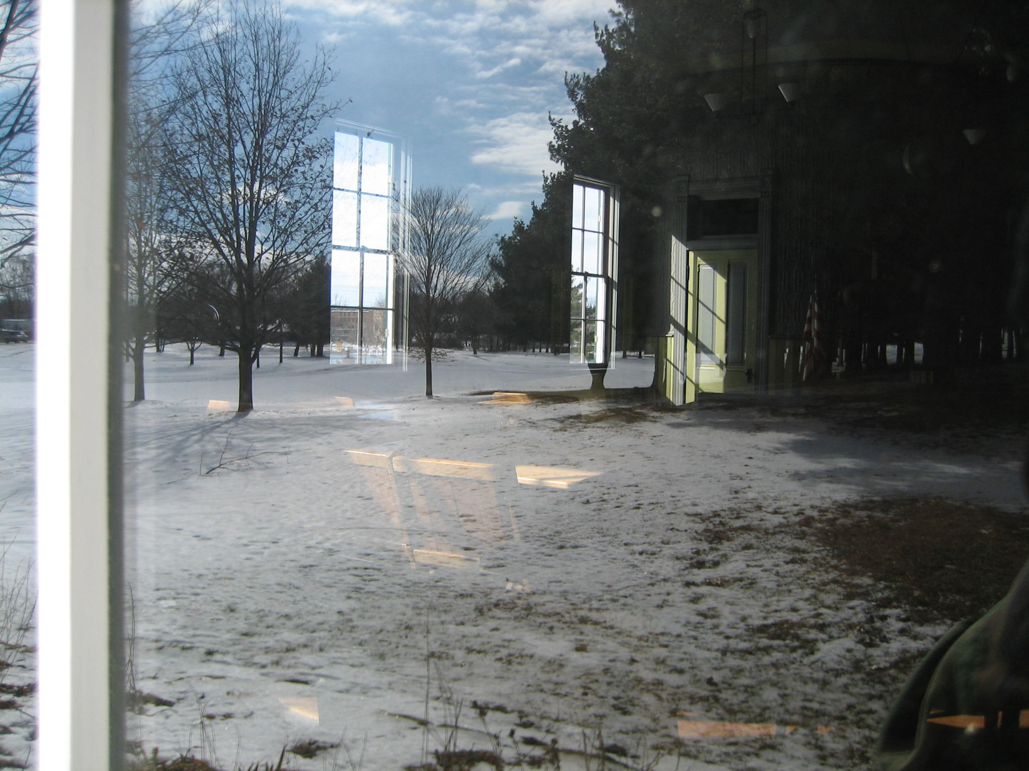 Chana School, Oregon, Illinois. Reflection across old style glass toward interior classroom. National Register of Historic Places.